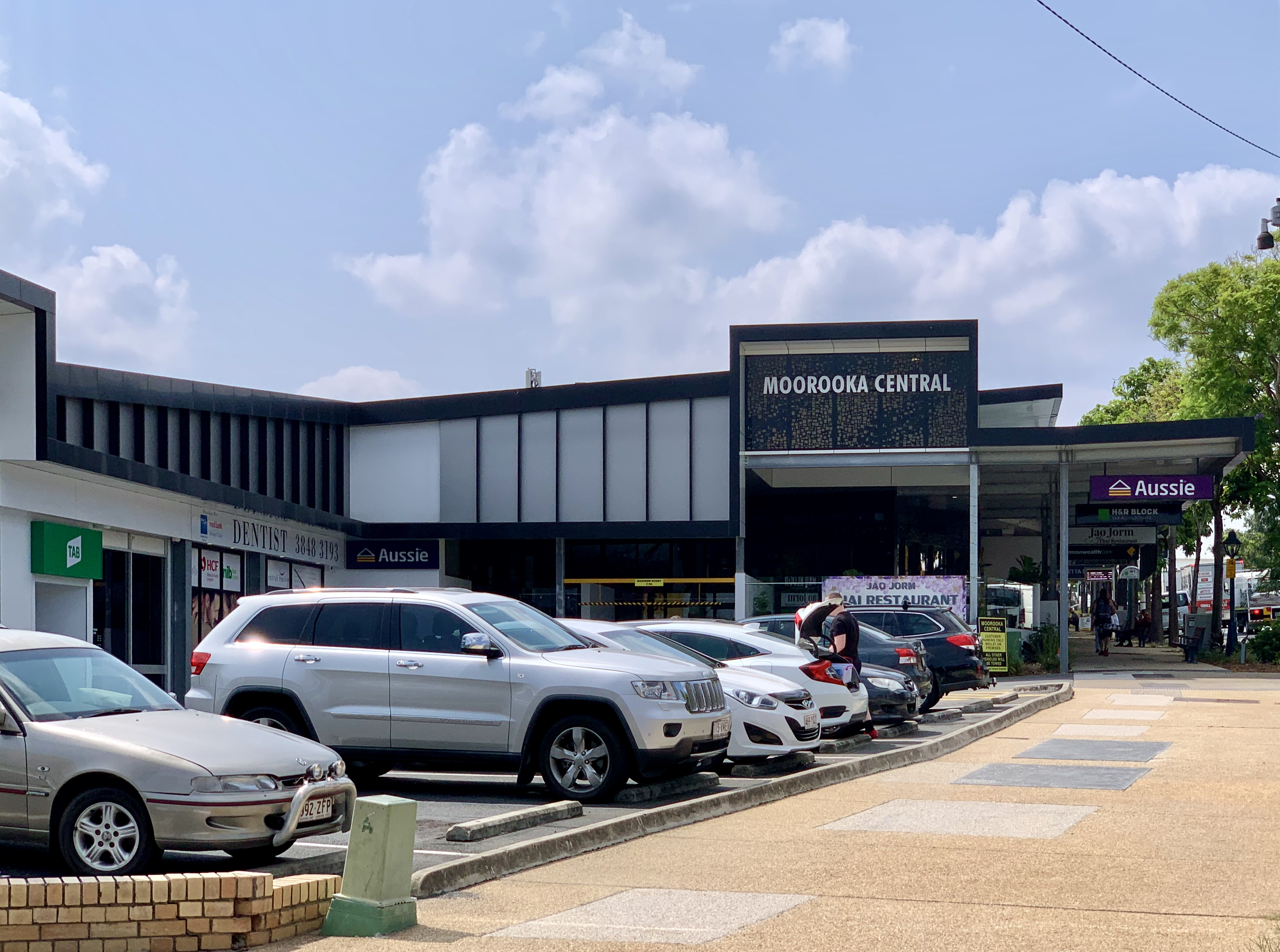 Moorooka Central, Moorooka, Queensland, 2020